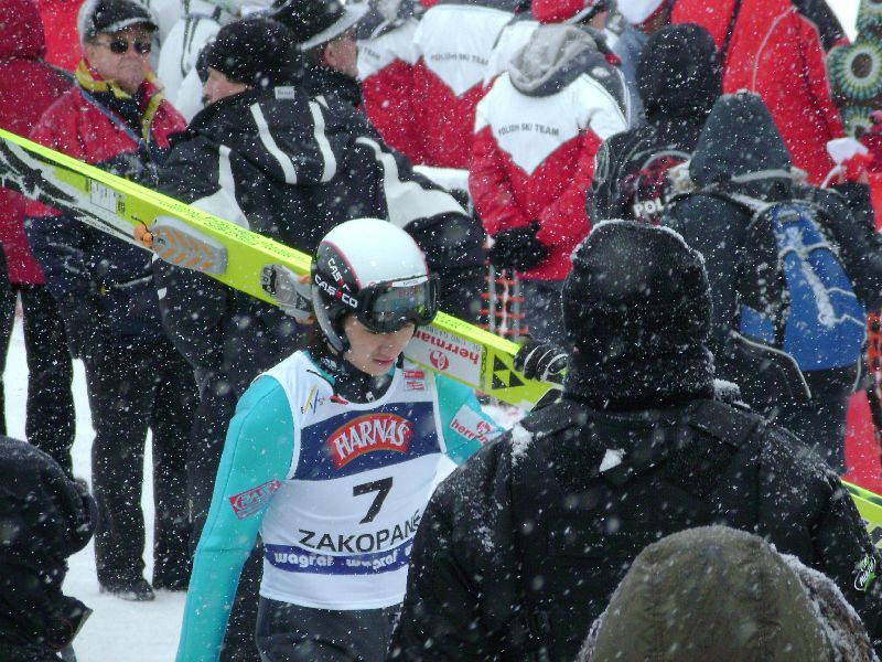 ski jumper Radik Zhaparov from Kazakhstan during the World Cup in Zakopane on 27-1-2008